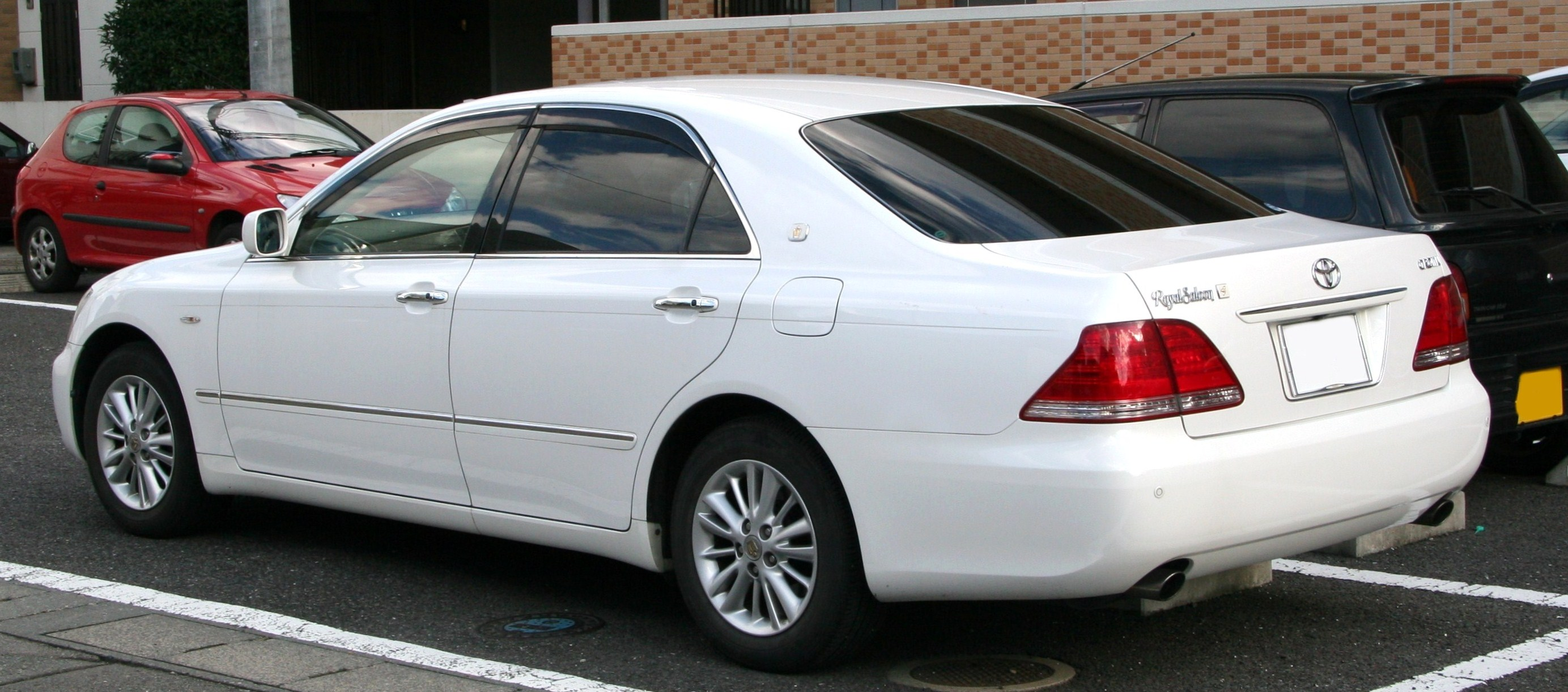 Toyota Crown